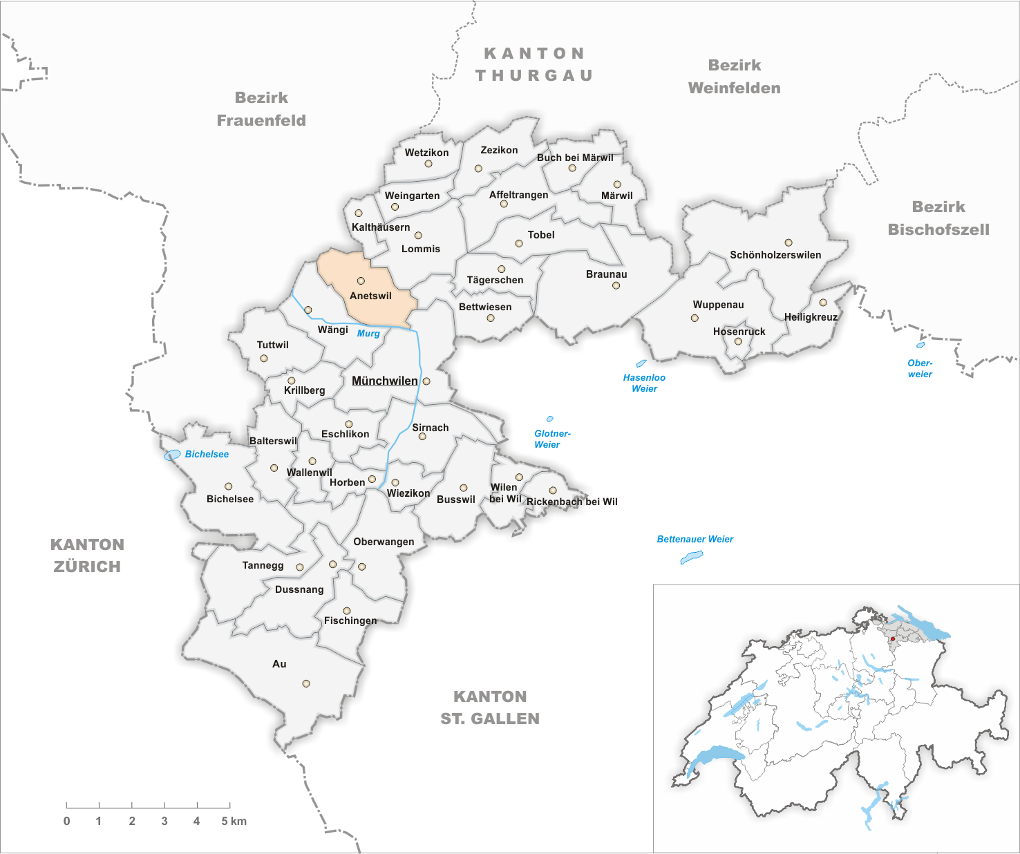 Municipality Anetswil